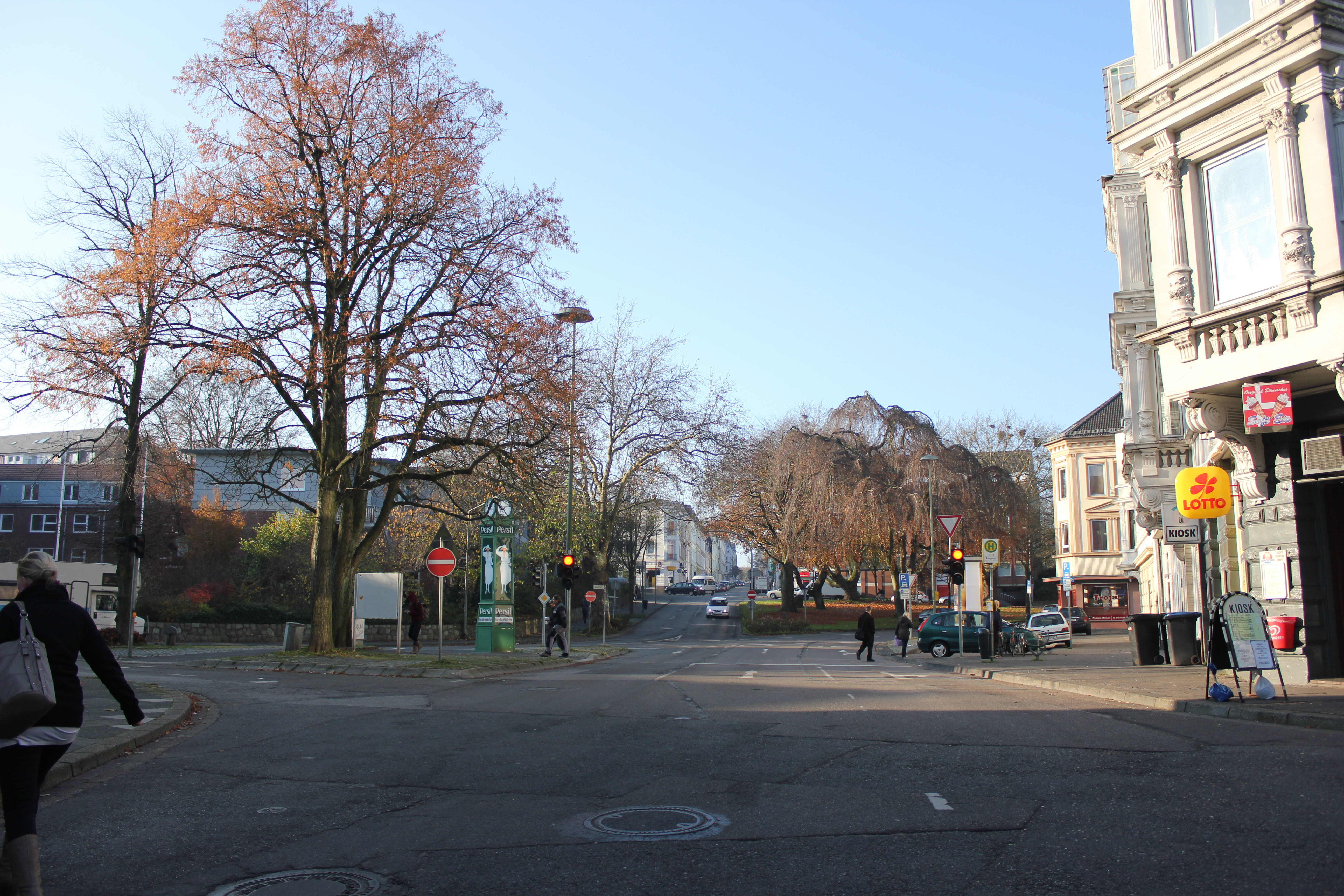 The Castle Square in Flensburg in Germany